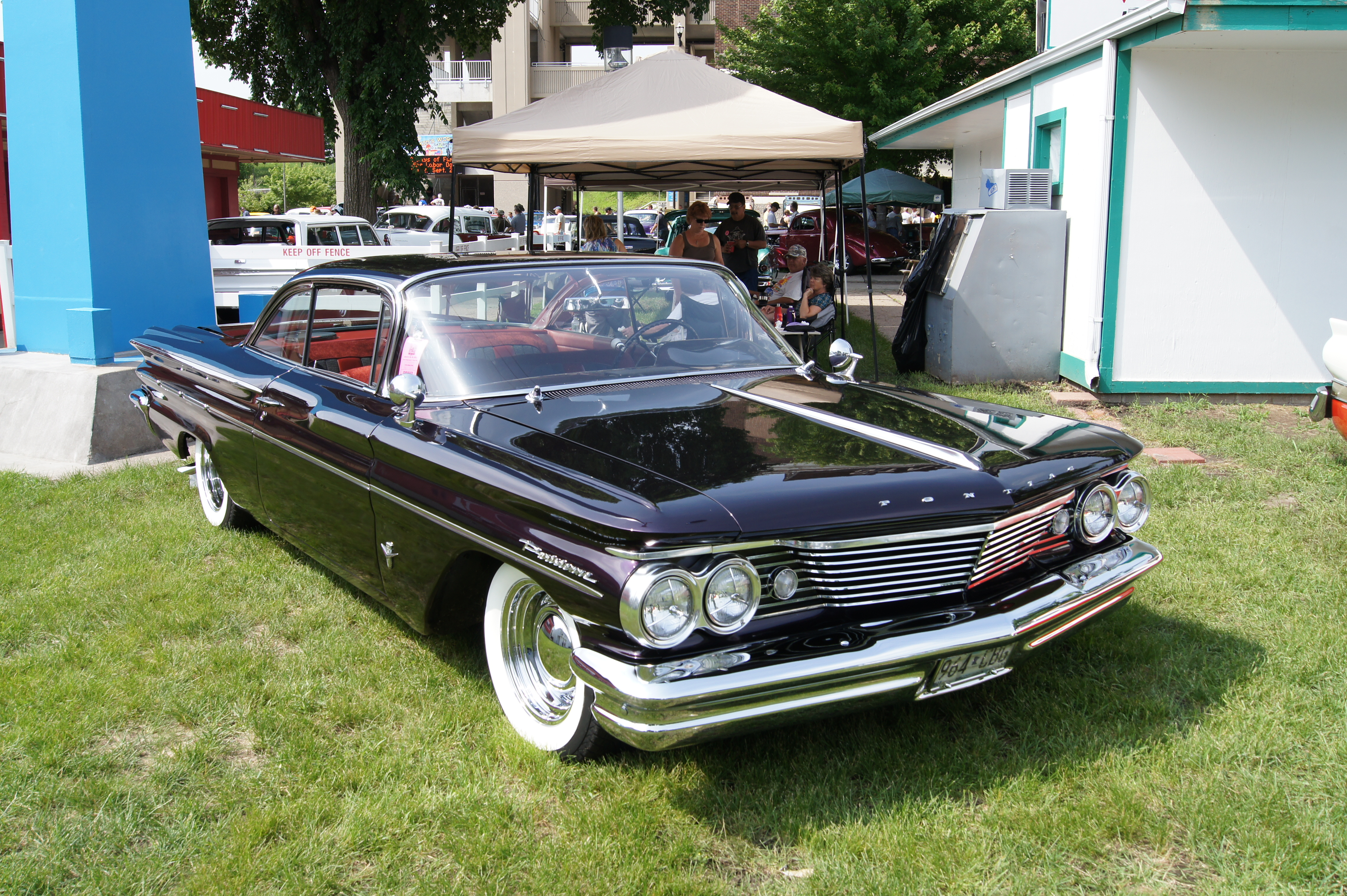 MSRA “BACK TO THE 50′s” 40th ANNIVERSARY June 21-23, 2013 State Fairgrounds St. Paul Minnesota More Car Pictures